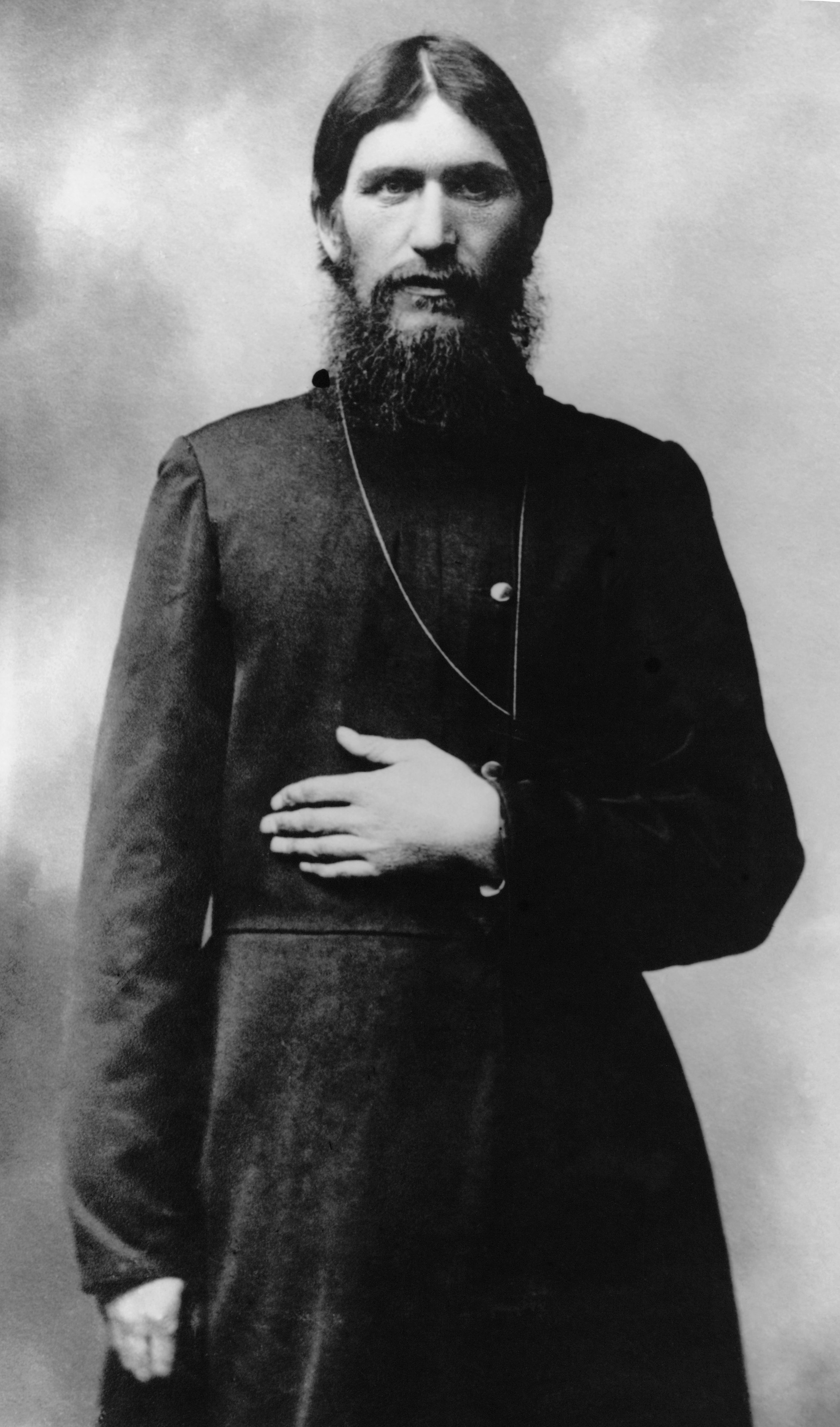 Portrait of Grigori Rasputin (1869-1916)